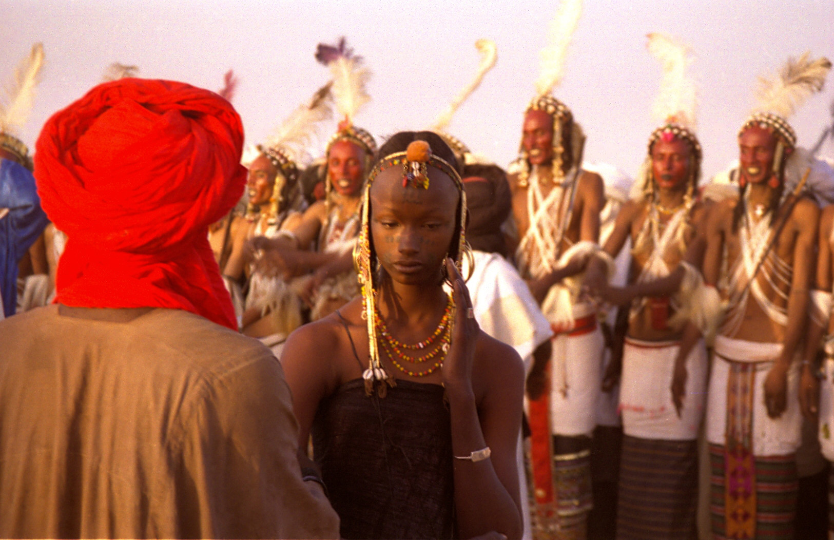 A young Wodaabe maiden coyly judges the contestants at the Gerewol festival. Photographed 1997 in Niger.1997 #274-27 Gerewol